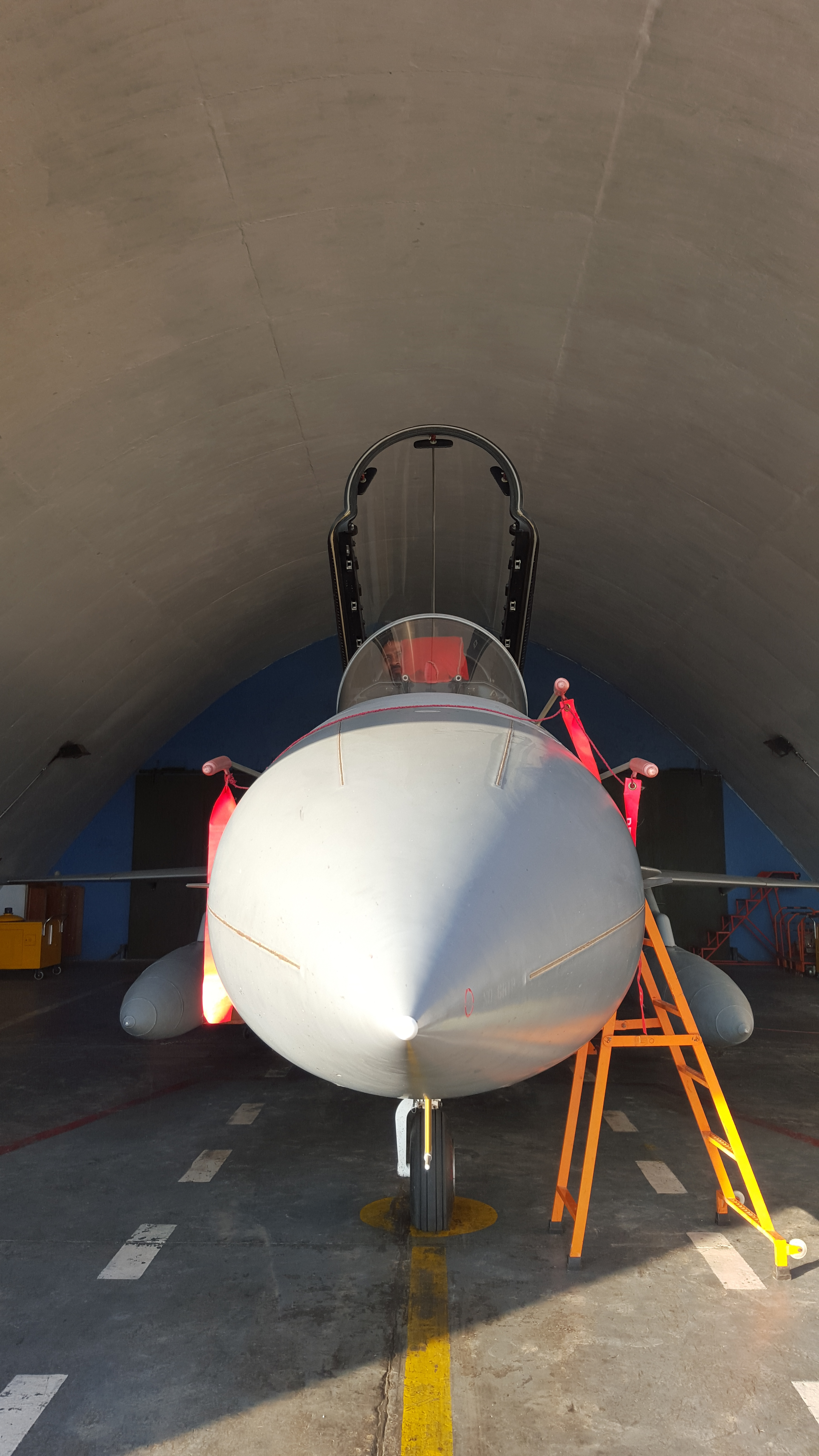 JF-17 Block 1 at Sargodah